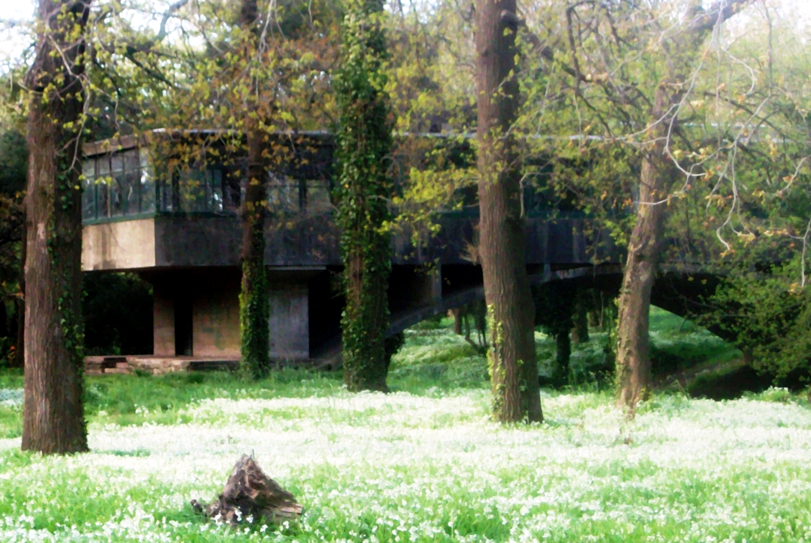 Detail of Casa del Puente, also known as "Casa sobre el arroyo", designed by architect Amancio Williams in 1943, Mar del Plata, Argentina. Watercolor effect.